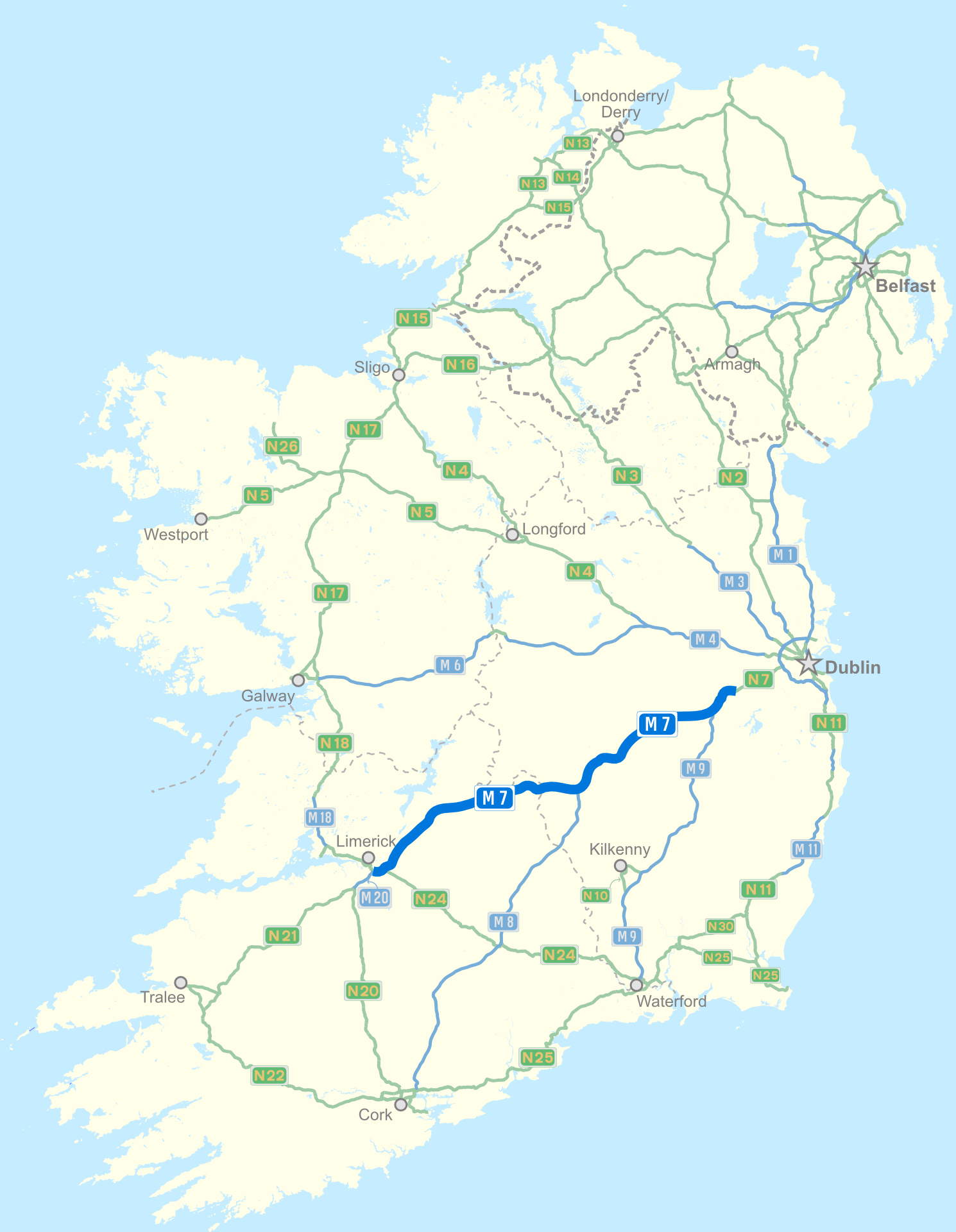 Map of M7 motorway (Ireland) with M7 blue bolded, Nxx routes in green and Mxx routes in blue